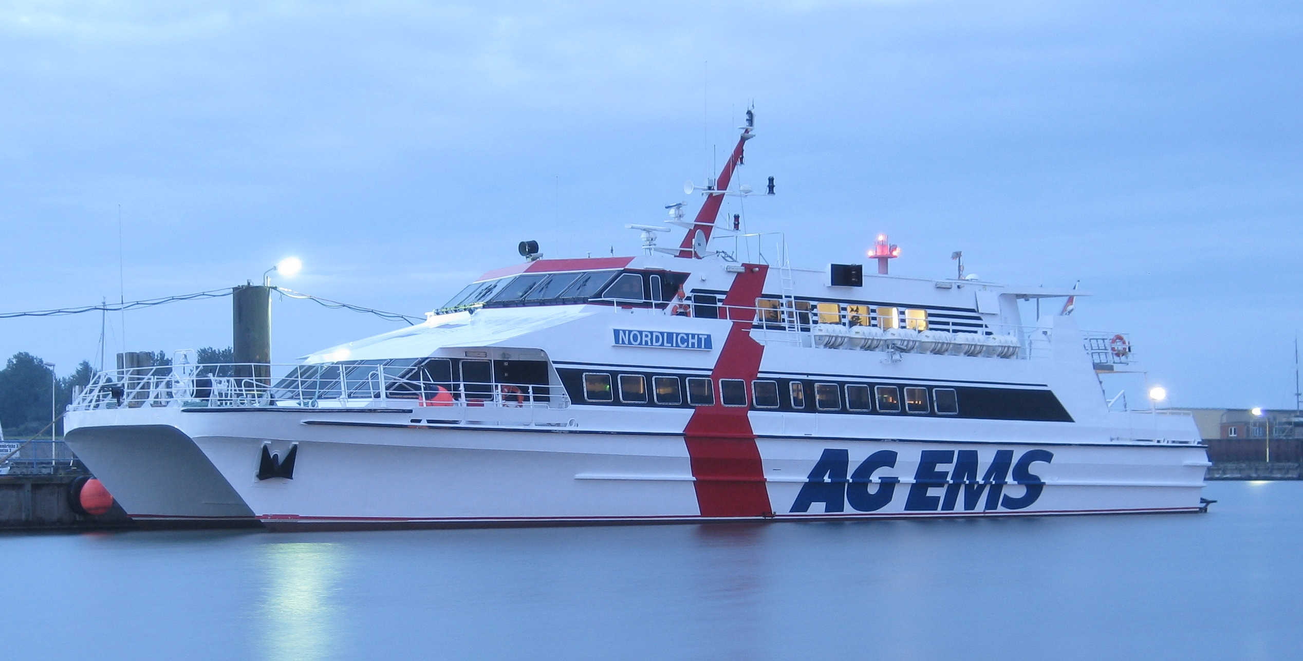 Nordlicht